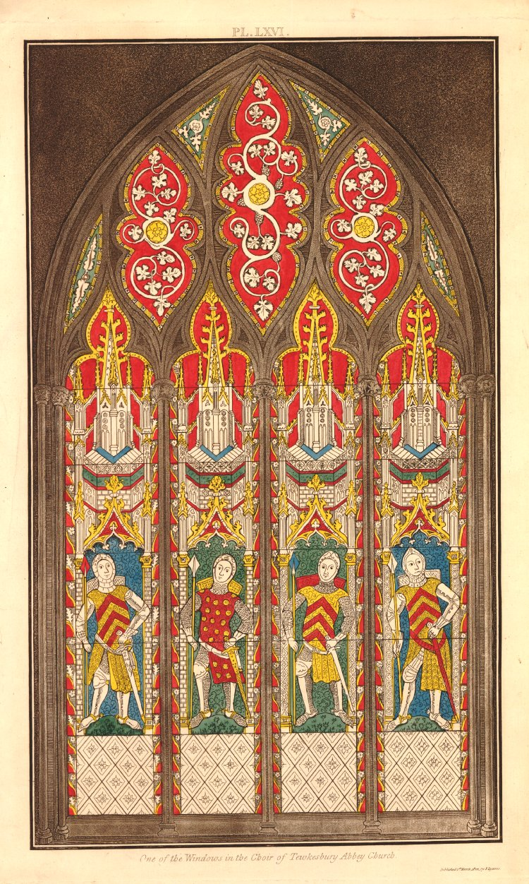 "One of the Windows in the Choir of Tewkesbury Abbey Church," etching and aquatint with hand colouring, by the British antiquarian Samuel Lysons, from the "A Collection of Gloucestershire Antiquities," published by Lysons in 1852. Window shows four panels with knights, each holding a sword or spear. The coat of arms of the de Clare family is visible on the knights. 432 mm x 274 mm. Courtesy of the British Museum, London.